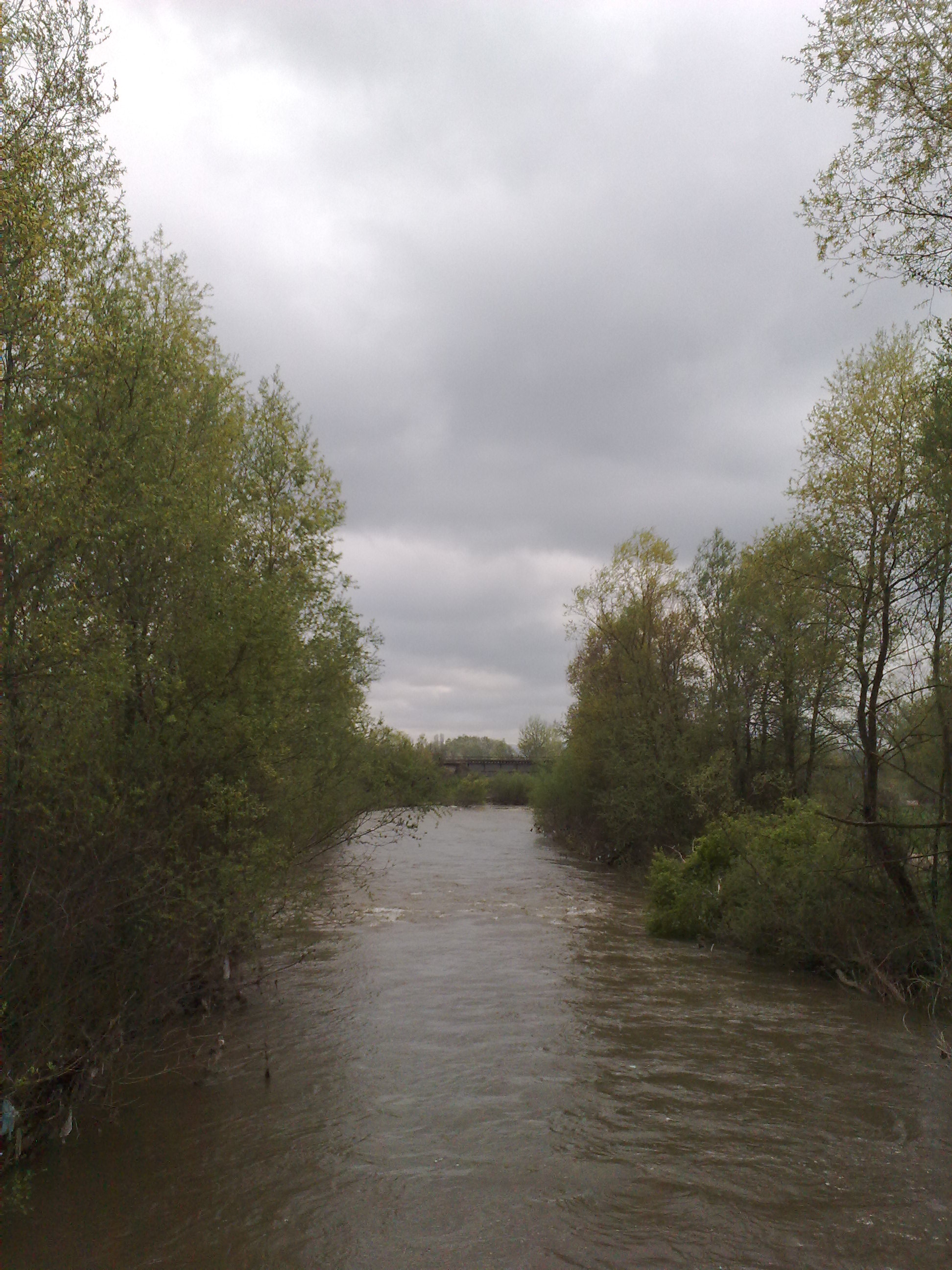 Fotografija reke Pčinje